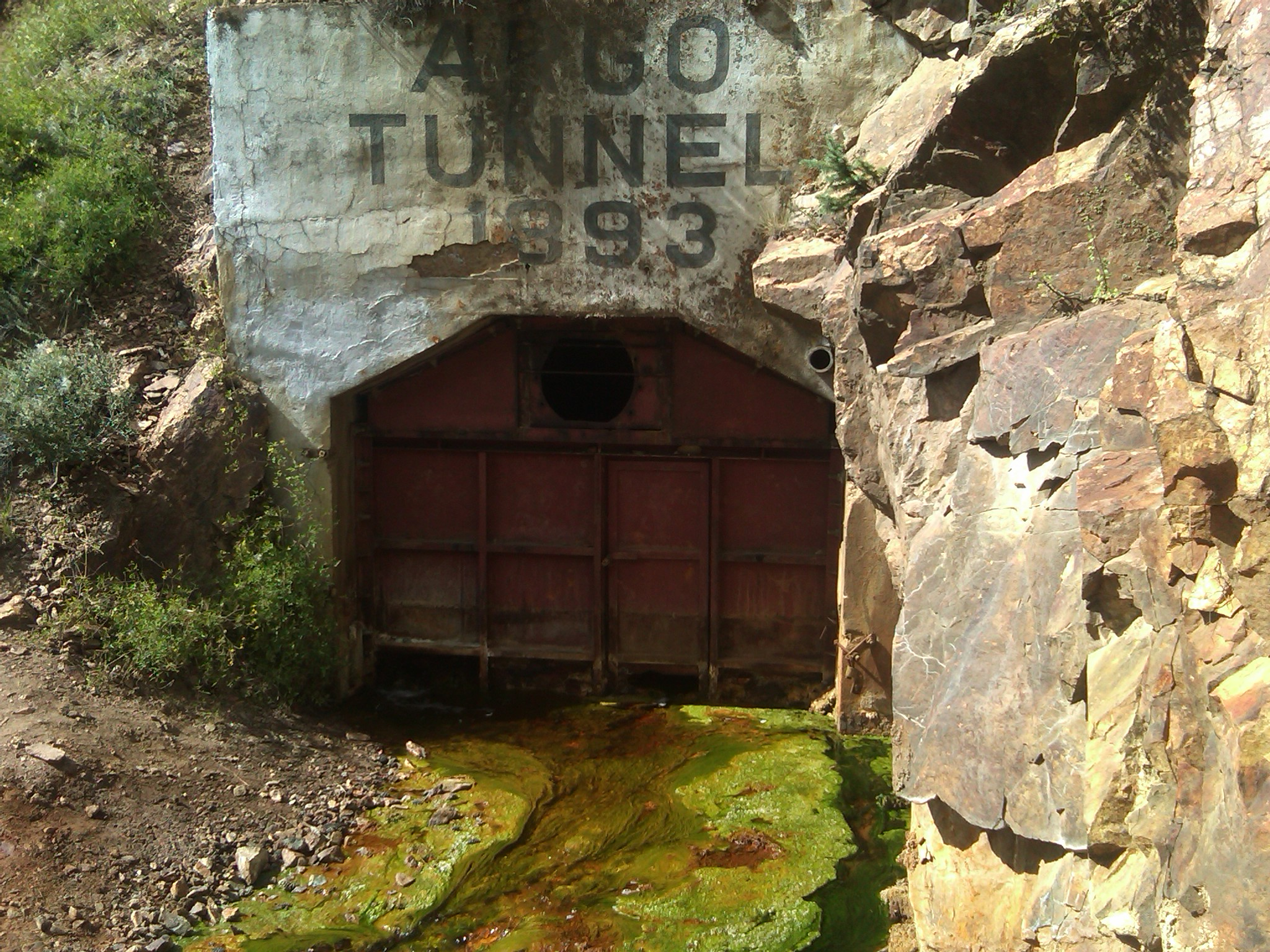 Water flowing from the Argo Gold Mine (2)